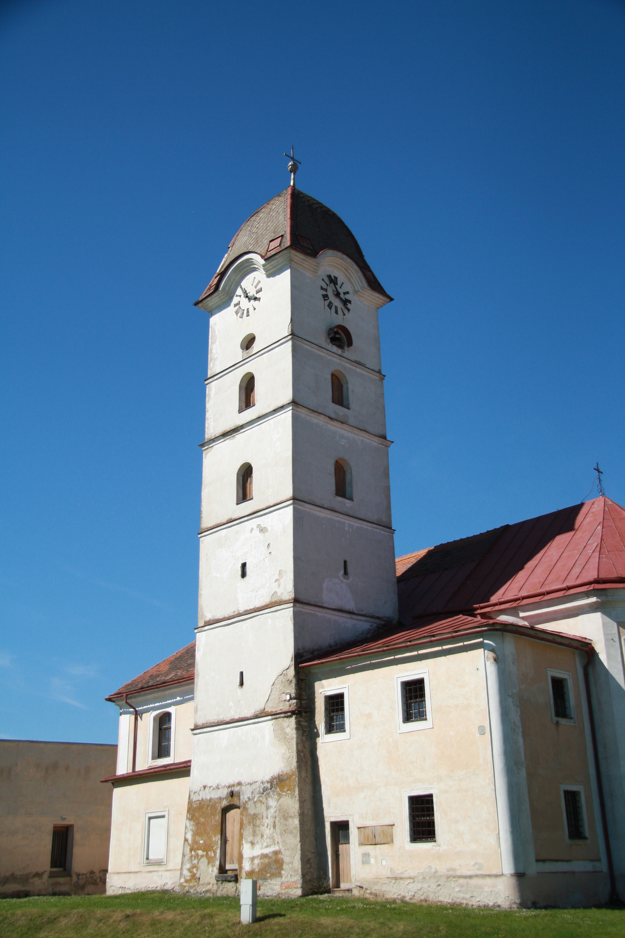 Tower of Church of Saint Michael in Želetava, Třebíč District.